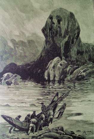 Original ilustration from George Rouxe to novel J. Verne "The Sphinx of the Ice Fields".